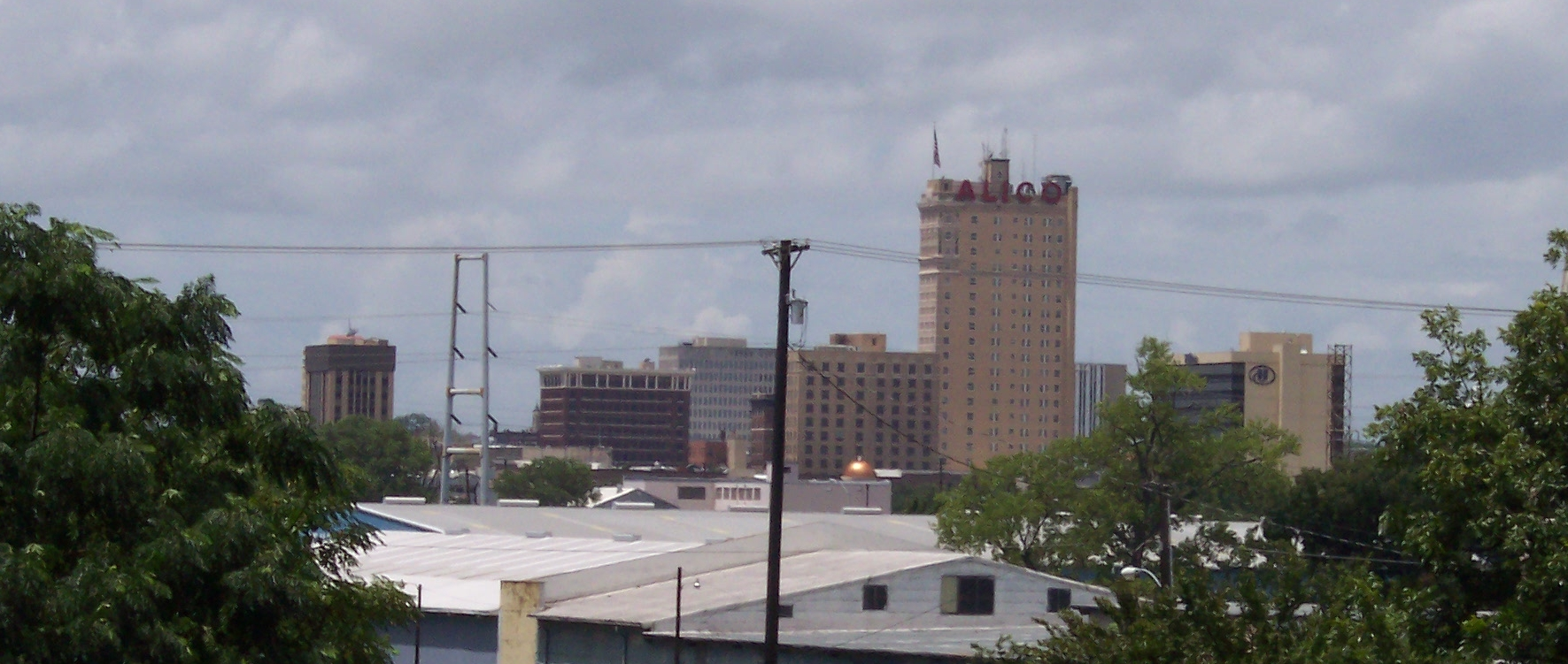 Downtown Waco, Texas, from Interstate 35